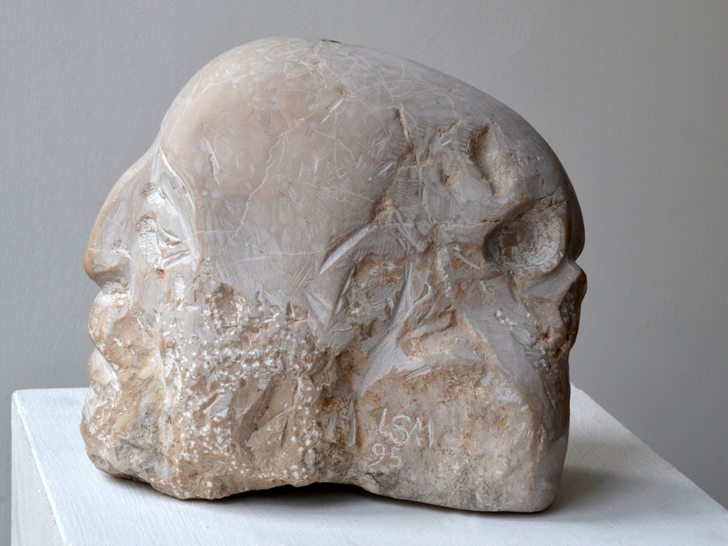 Sculpture by Ludmila Seefried-Matějková, Memento mori, limestone (1995)